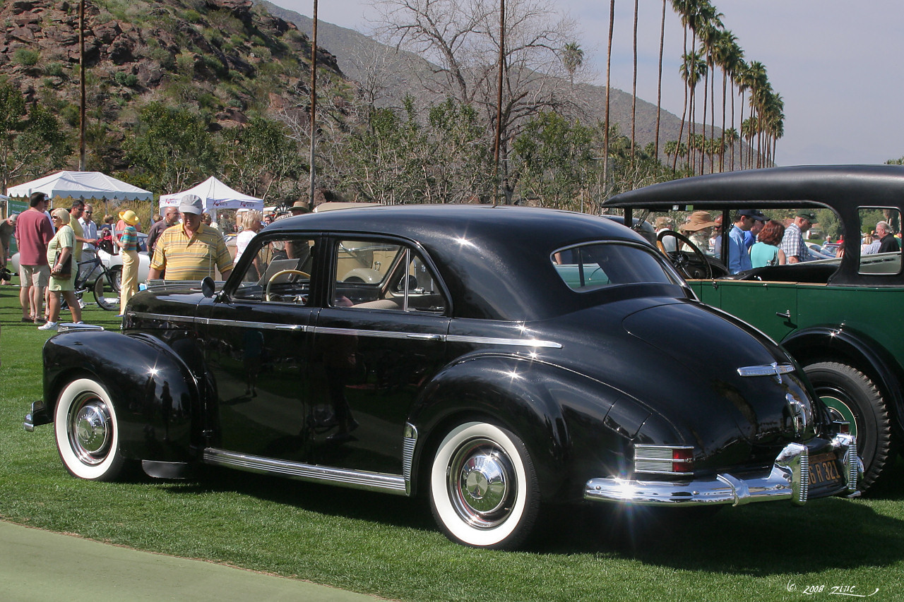 1942 Studebaker Commander Custom Cruising Sedan